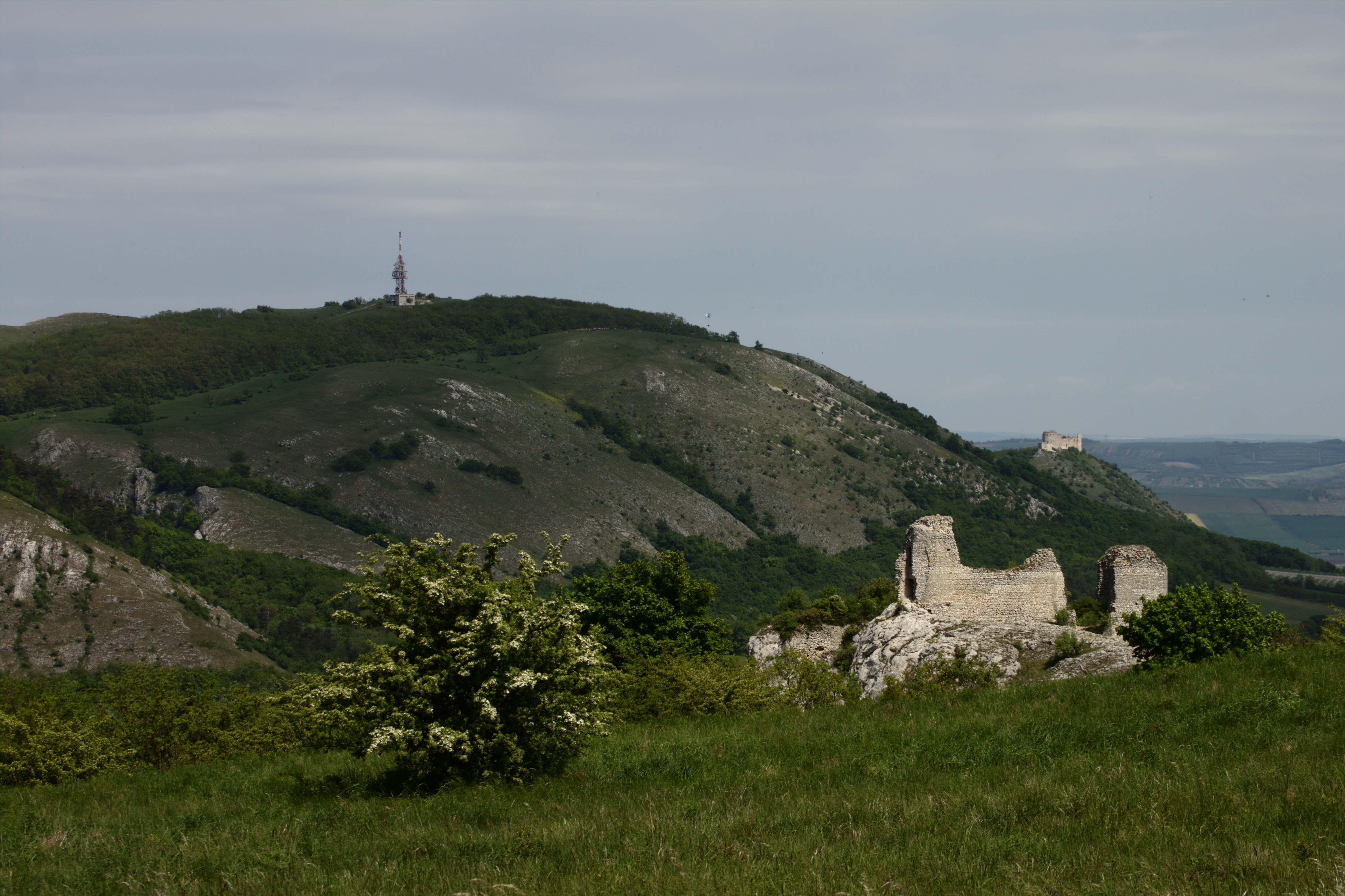 Děvín hill in Pálavské vrchy, South Moravian Region, CZ